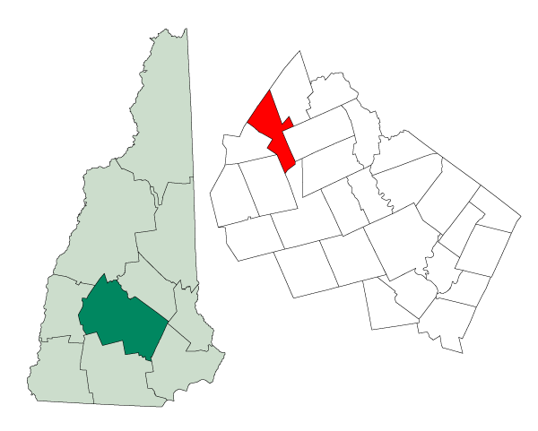 Map of a municipality in Merrimack County, New Hampshire